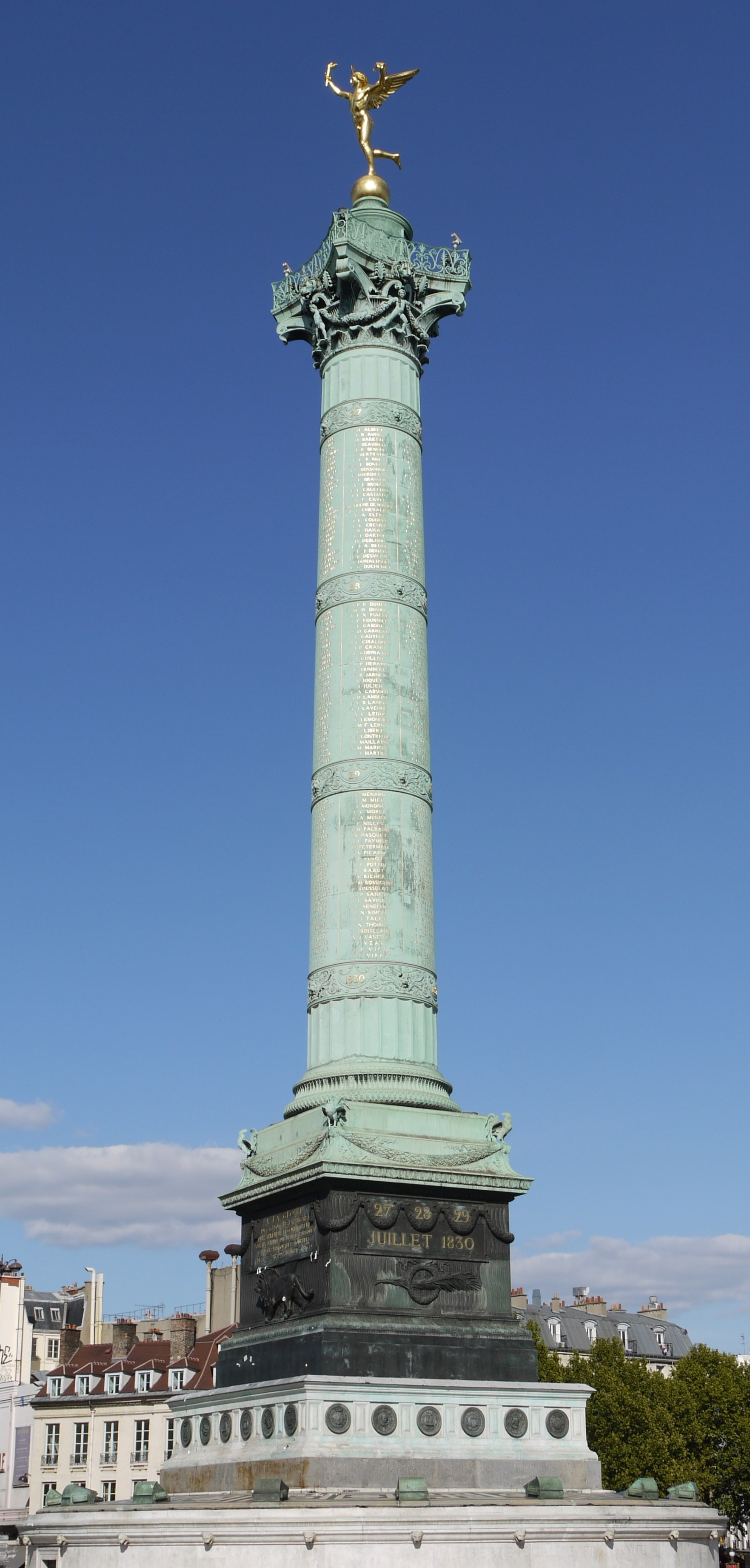 Colonne de Juillet